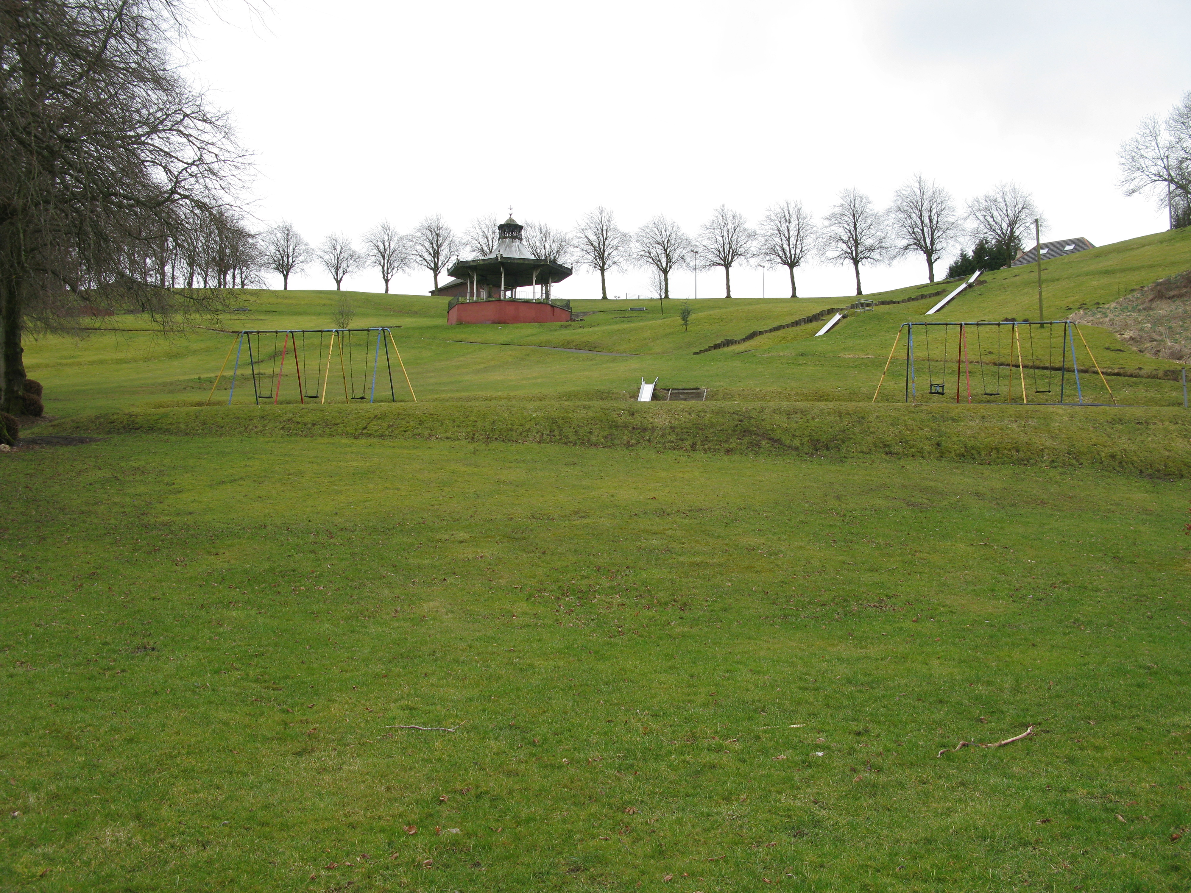 Alexander Hamilton Memorial Park The Alexander Hamilton Memorial Park, along with the bandstand, was presented to the village by Alexander Hamilton in May 1925. The bandstand, in the centre of the photograph, originated from the Great Glasgow Exhibition of 1911.